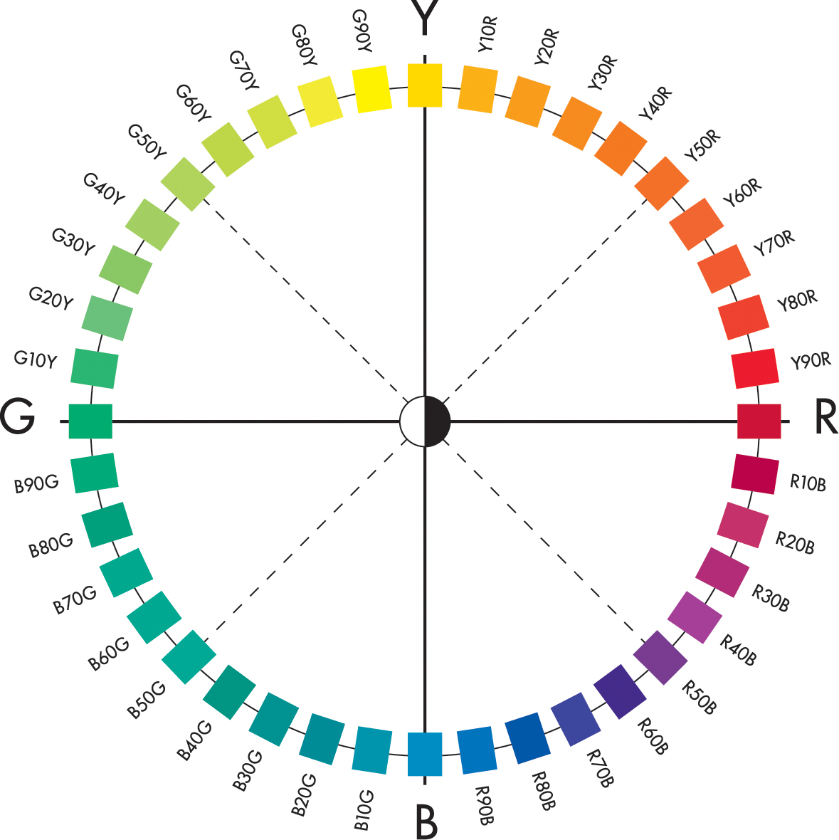 NS Colour Circle with more accurate colours